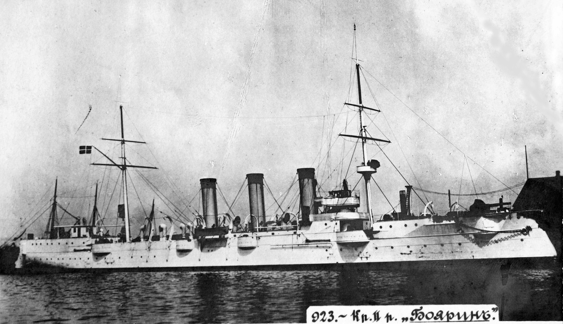 Imperial Russian protected cruiser Boyarin, 1902.